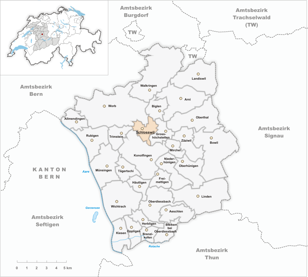 Municipality Schlosswil